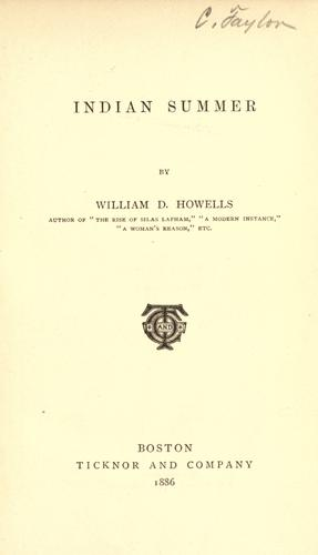 Dustjacket of Ticknor and Company 1886 edition of Indian Summer by William Dean Howells